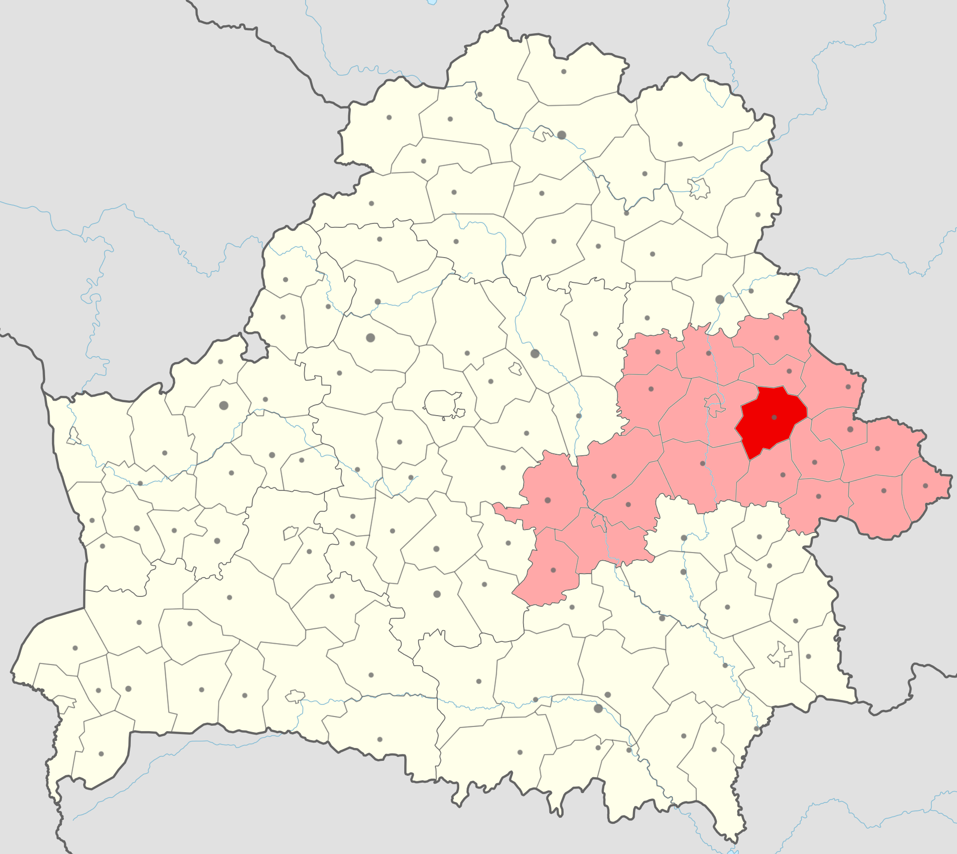 Location of Čavuski rajon (red) in Mahilioŭskaja voblasć (light red) in Belarus.